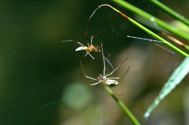 Tetragnatha extensa couple, from Commanster, Belgian High Ardennes .